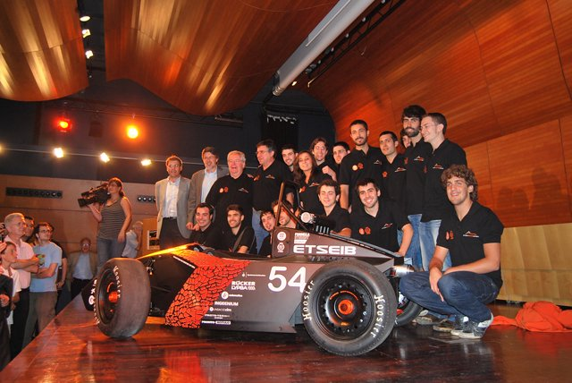 Team Picture of ETSEIB Motorsport